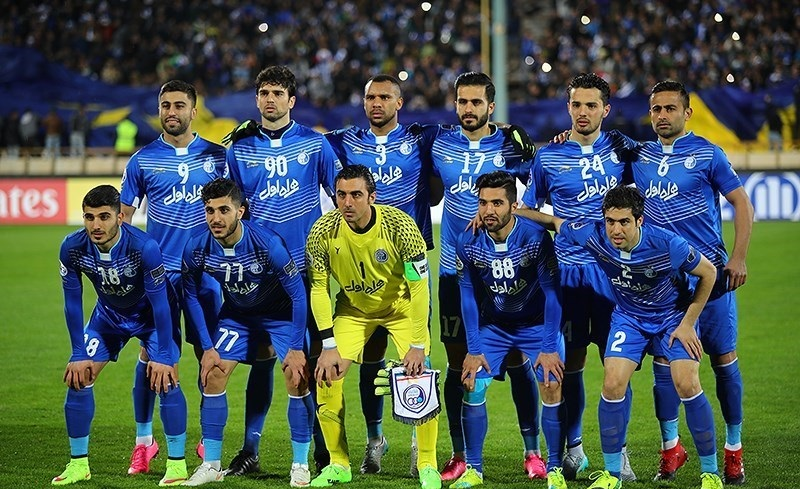 Esteghlal F.C. players in 2016-17 season